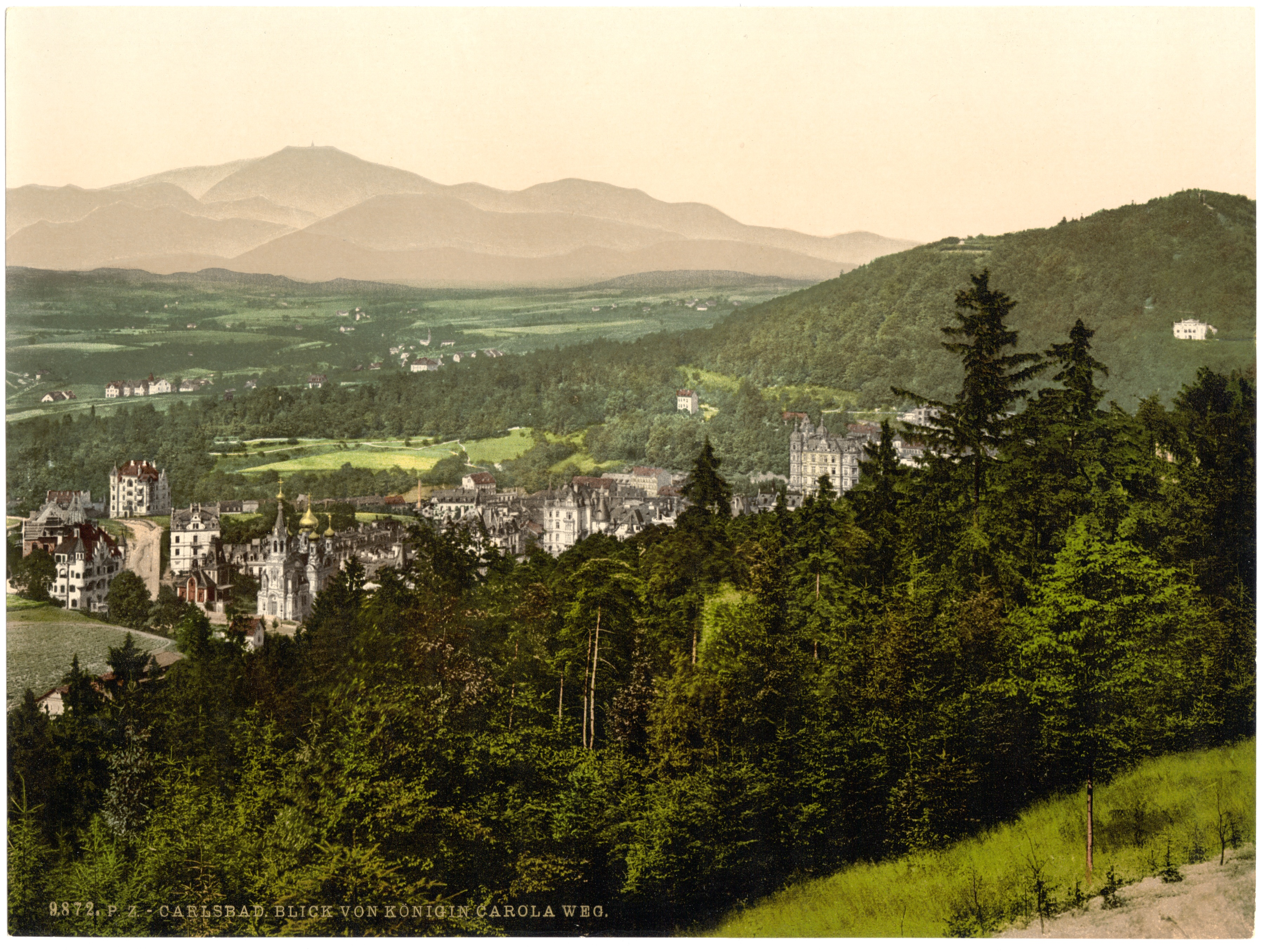 Forms part of: Views of the Austro-Hungarian Empire in the Photochrom print collection.; Title from the Detroit Publishing Co., Catalogue J-foreign section, Detroit, Mich. : Detroit Publishing Company, 1905.; Print no. "9872".